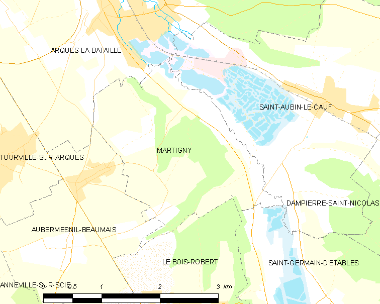 Map of French municipality Martigny